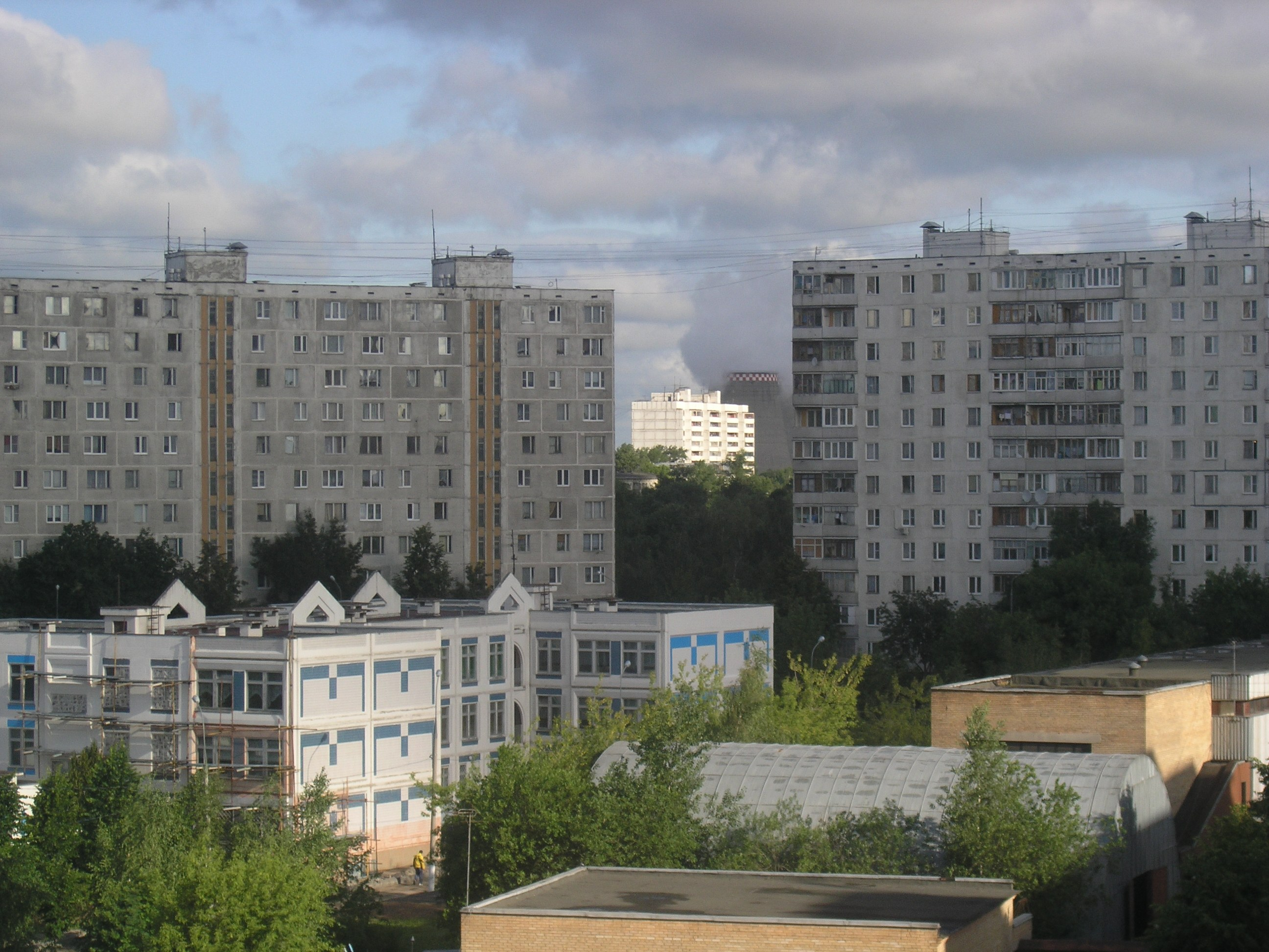 Buildings along Korovinskoye Shossee in Moscow. The Plattenbauten are at ulitsa 800-lebya Moskvy, the cooling tower is at Izhorskaya ulitsa, both in Dmitrovsky district. The bright one is in Vostochnoye Degunino.